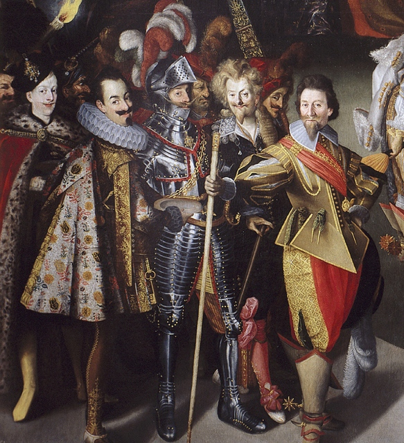 Bartlomiej Strobel: Feast of Herod with the Beheading of St John the Baptist Artist Bartlomiej Strobel (1591–1647) Alternative names Bartłomiej Strobel, Ströbel, Strubel, StroblDescriptionGerman-Polish painterDate of birth/death 11 April 1591 1647 Location of birth/death Wrocław ToruńWork periodBaroqueWork location Wrocław (1591-1634, 1636) Gdańsk (1618, 1634-1637), Elbląg (1637-1639), Toruń (1639-1647)Authority control : Q580102 VIAF: 64936310 ISNI: 0000 0000 5338 1346 ULAN: 500023218 LCCN: nr2002014499 GND: 124306411 WorldCat artist QS:P170,Q580102Title